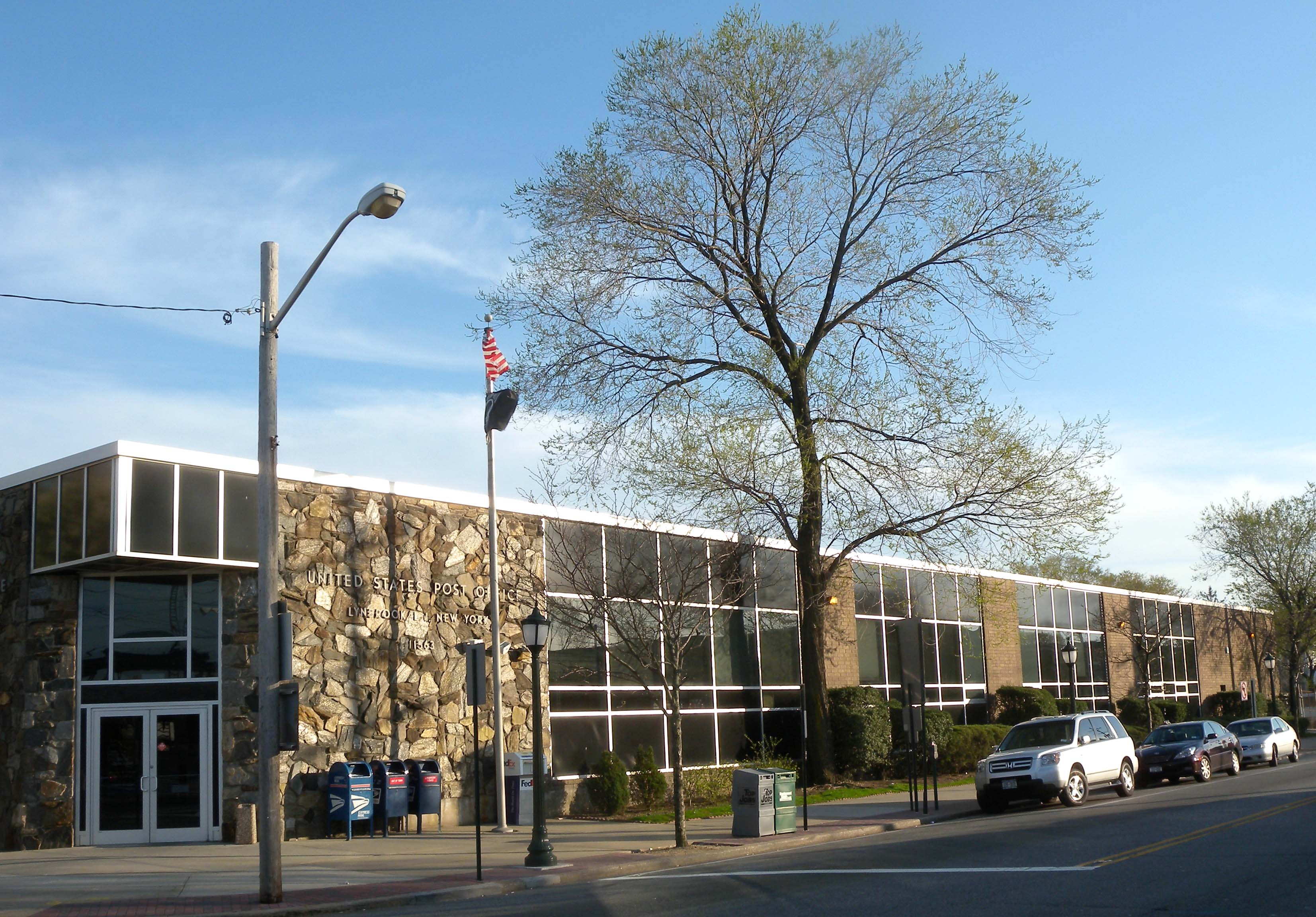 Looking south across Broadway and Eldert at post office of Lynbrook, New York late on a sunny afternoon.